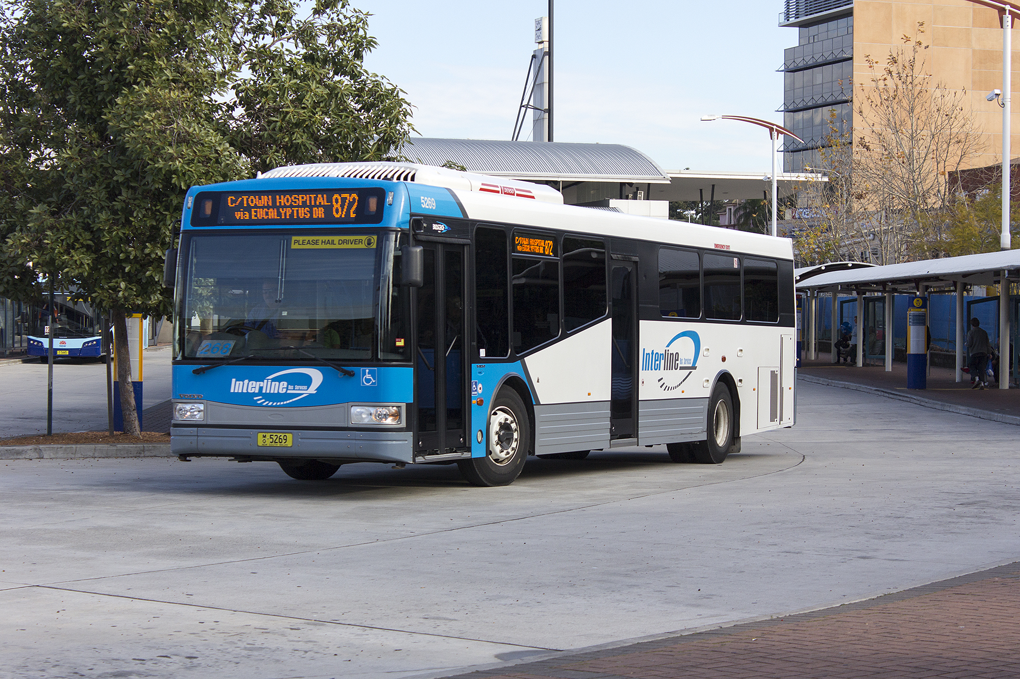 Interline Bus Services (mo 5269) Bustech 'VST' bodied Volvo B7RLE departing Liverpool Interchange.